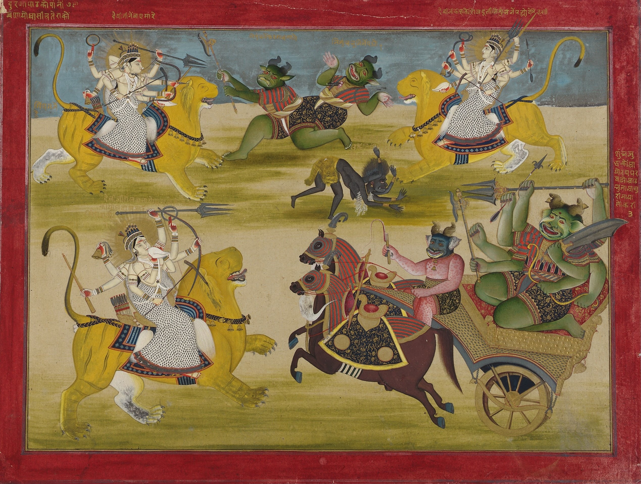 Durga fighting the rakshashas Shunga and Nishunga, from a Devi Mahatmya mid 19th century Opaque watercolor and gold on paper H: 27.3 W: 38.0 cm Punjab Hills, India Gift of Charles Lang Freer F1907.602